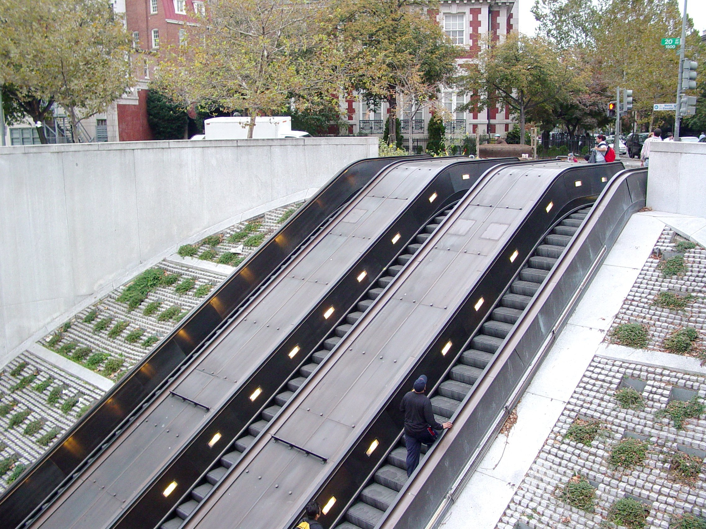 Q Street entrance at Dupont Circle Metro station